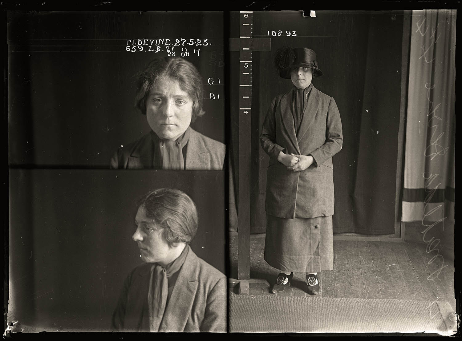 Tilly Devine